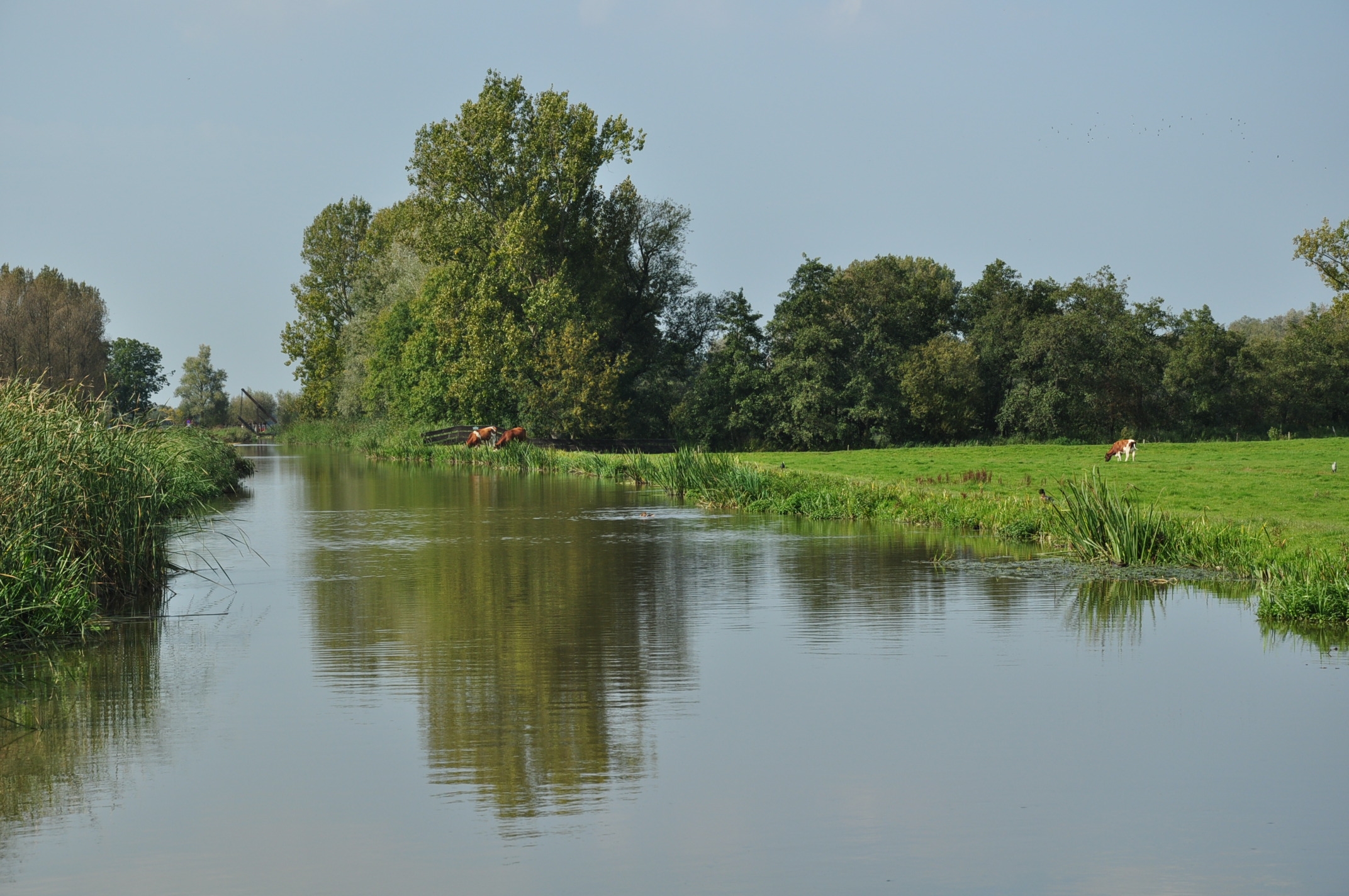 The Elleboogse Wetering (Elleboogse waterway) forms the border between the municipalities of Zoetermeer and Zoeterwoude (Province of South Holland, Netherlands). Some polders are drained through this waterway.